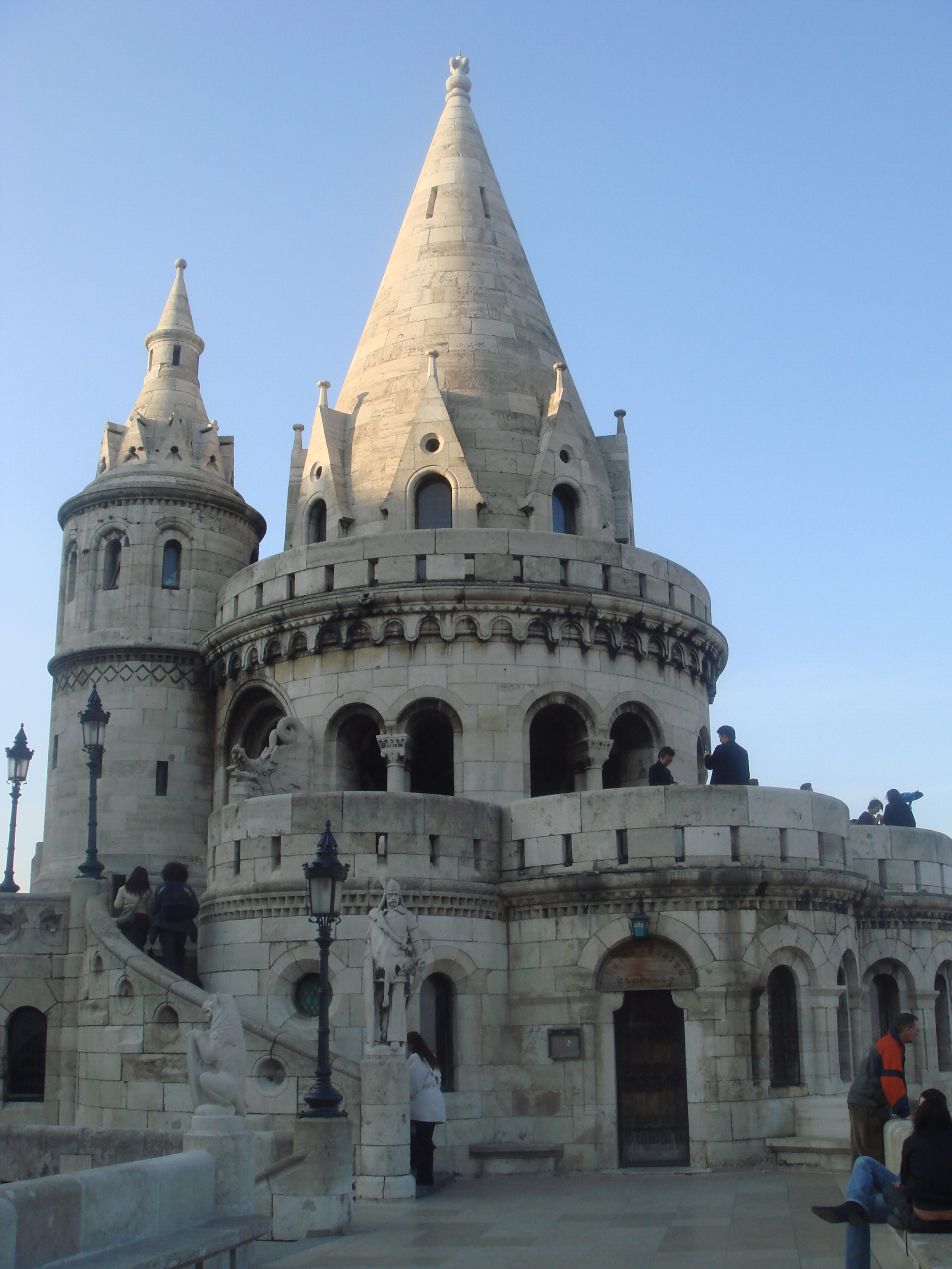 Fisherman's Bastion in BudapestBethmechlin 11:08, 17 March 2007 (UTC)